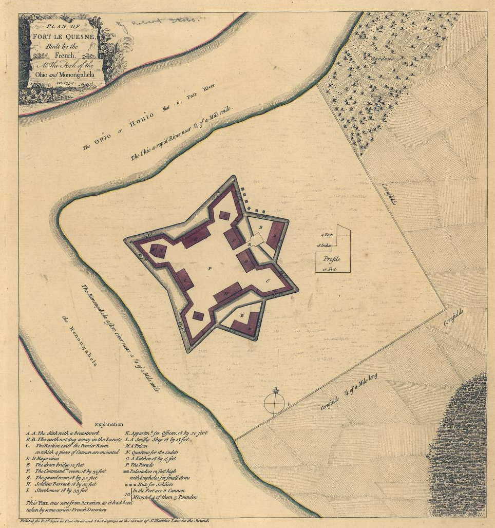 Plan of Fort Duquesne, based on a sketch by a Virginian Prisoner and printed in Thomas Jeffery's A general topography of North America and the West Indies. Being a collection of all the maps, charts, plans, and particular surveys, that have been published of that part of the world, either in Europe or America. London 1768. See also the digitalized version at the Library of Congress.